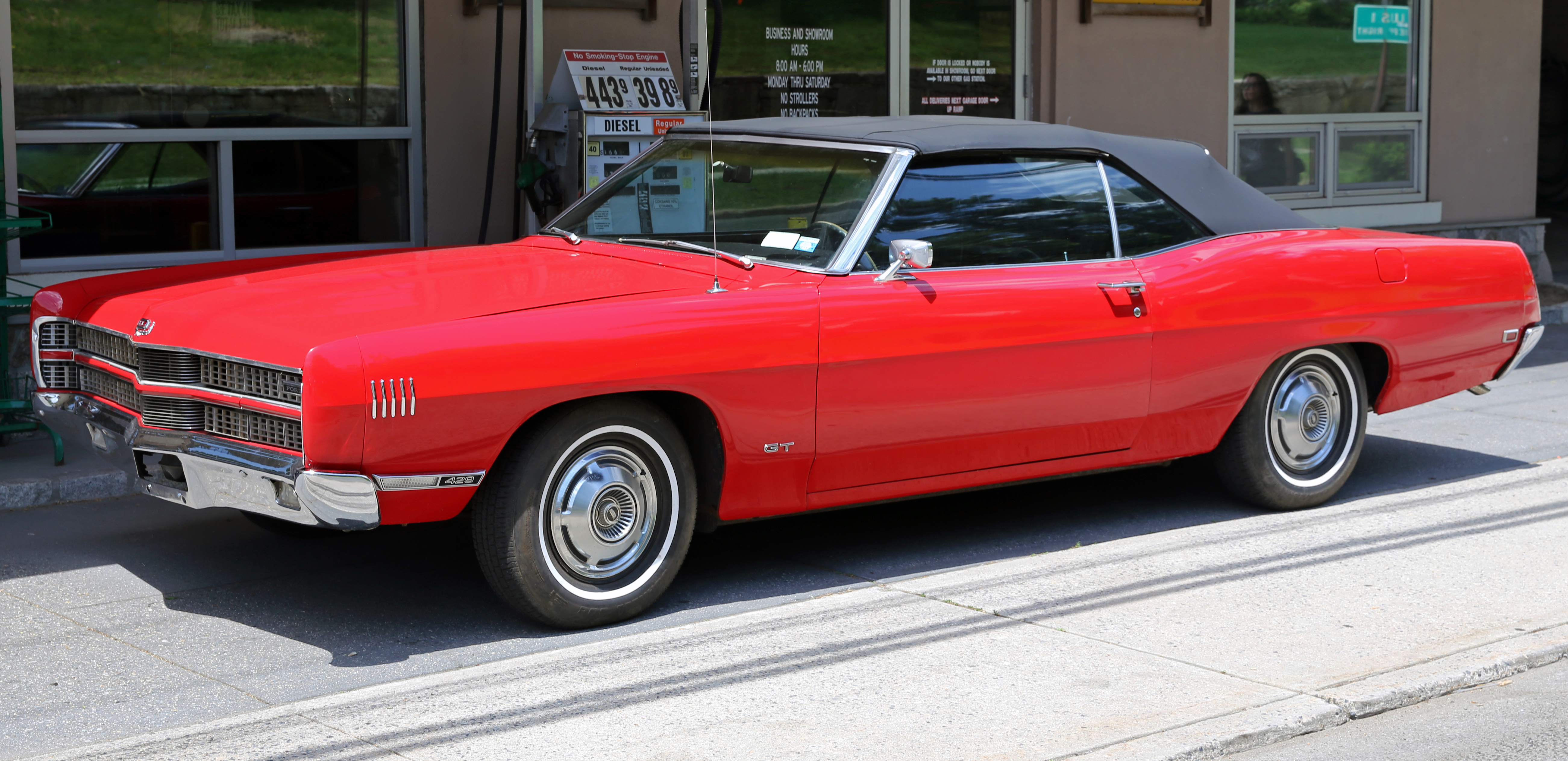 1969 Ford XL GT 429 Convertible. This one has the double-barrel 429 rather than the more powerful four-barrel option.